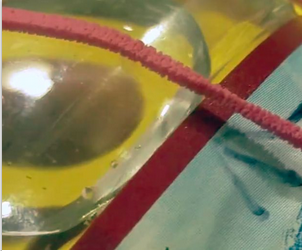 Rubber band damaged by ozone pollution in GORP study.